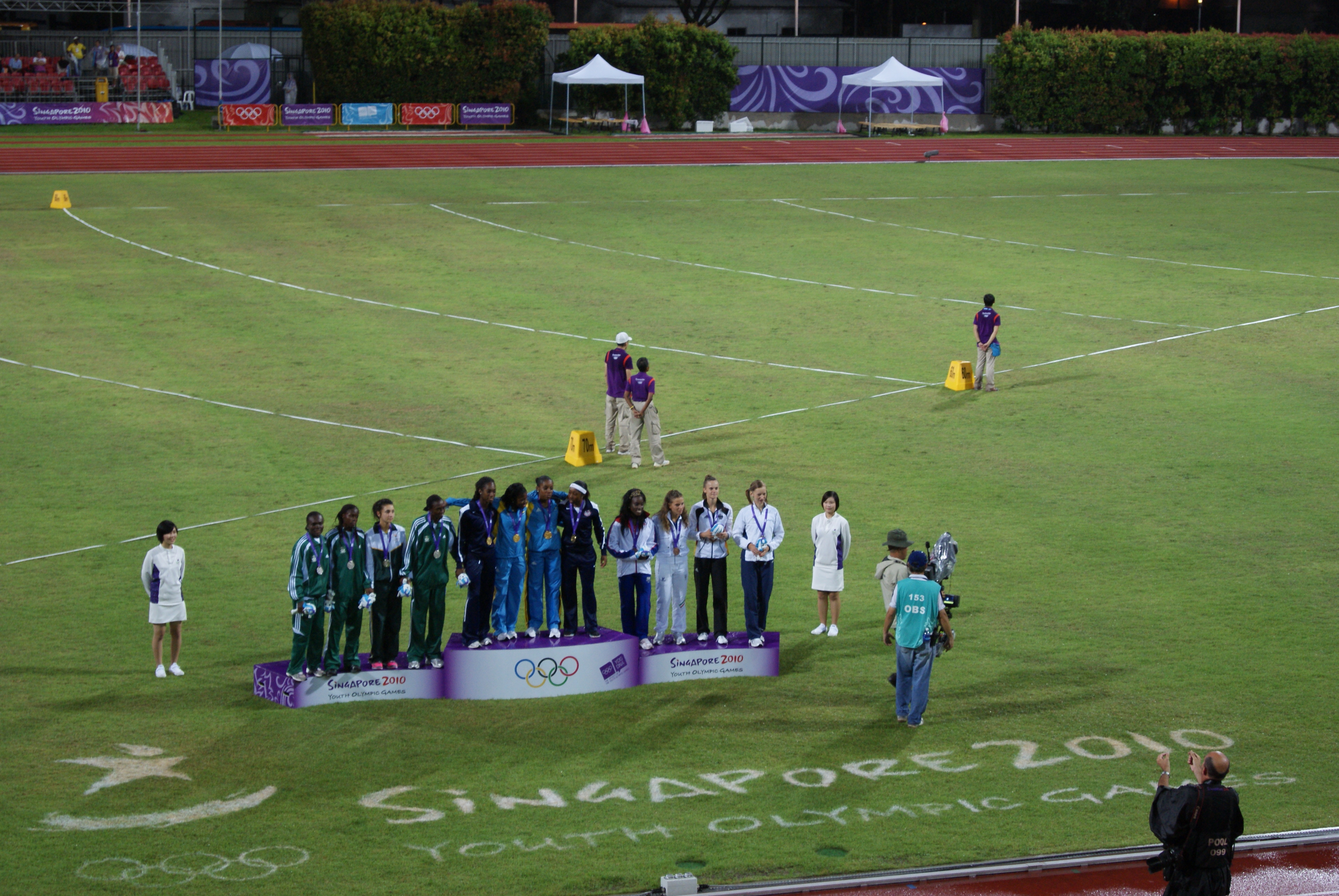 Athletics at the 2010 Summer Youth Olympics, held at Bishan Stadium, Singapore.